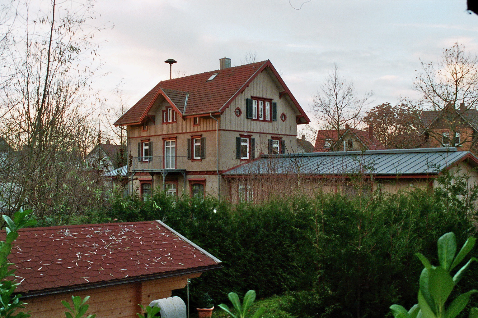 The former railway station Bahnhof Heilbronn-Sontheim, view from the side where former the tracks have been